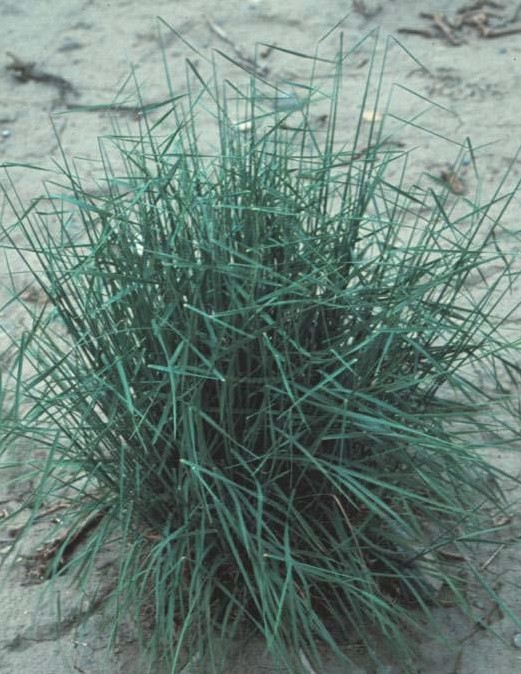 Elymus wawawaiensis — Snake River wheatgrass. Native grass of xeric habitats in the Pacific Northwest.